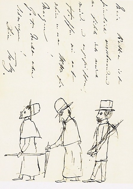 Letter of King Karl I. of Württemberg to Charles Woodcock